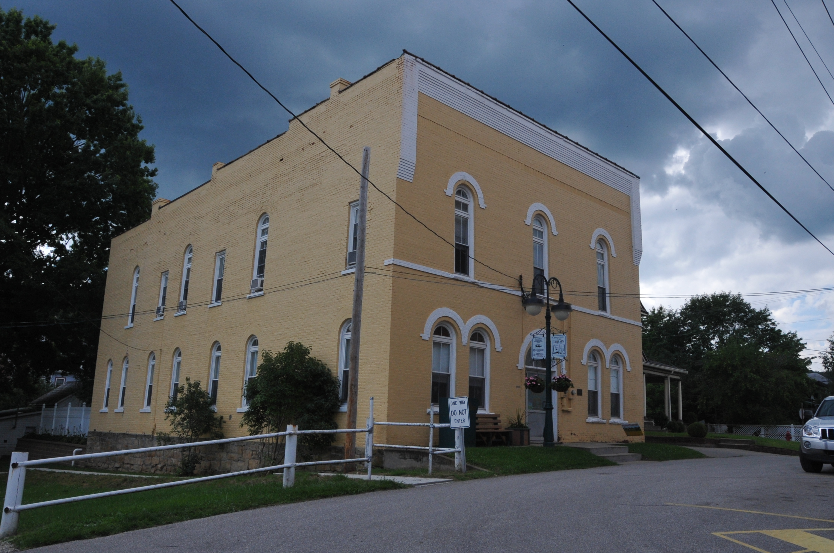 BUILT IN 1900 VICTORIAN ROMANESQUE; SINCE 1965 HAS BEEN THE PUBLIC LIBRARY